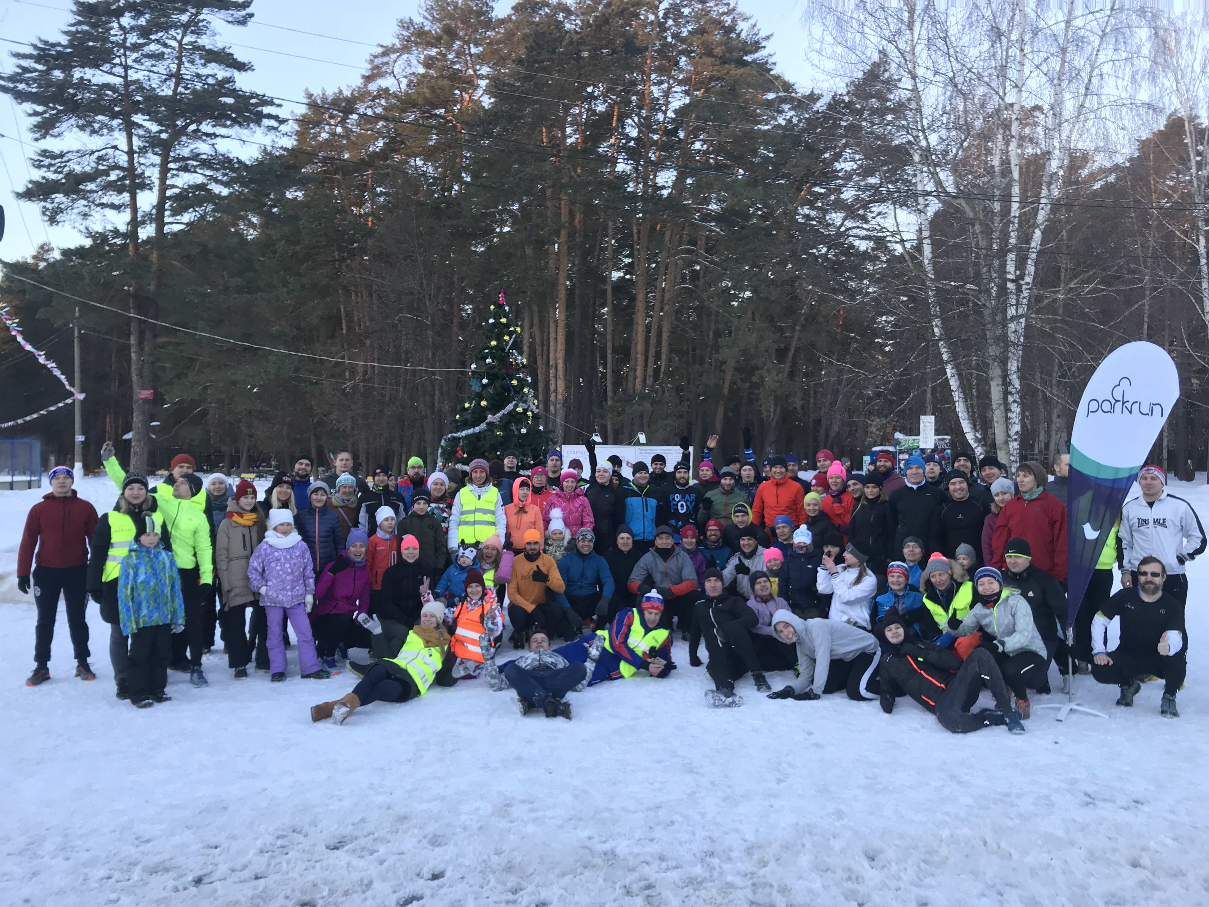 parkrun Serpukhov №1— 19/01/2019